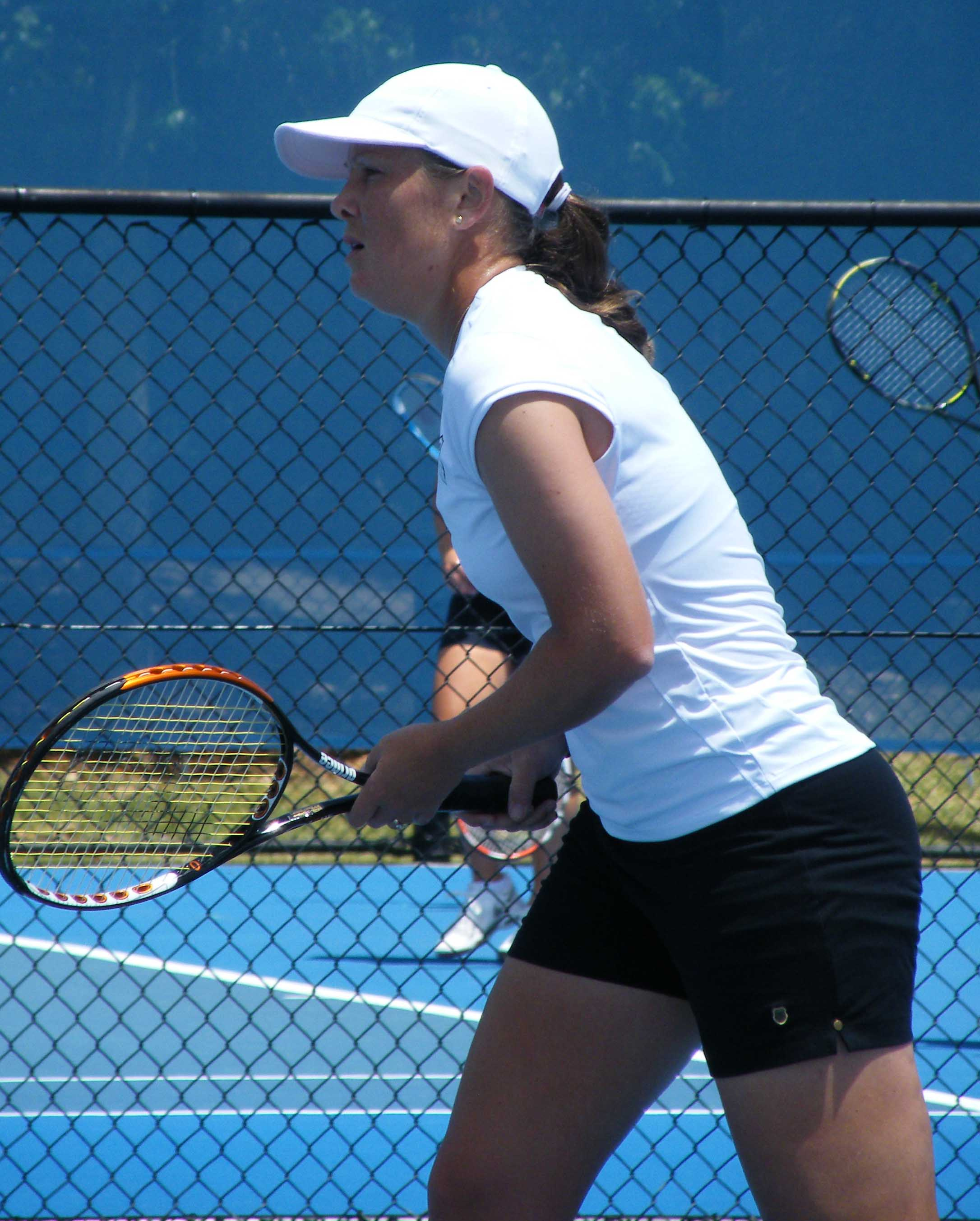 Liezel Huber of South Africa - NSW Tennis Open, January 2009.